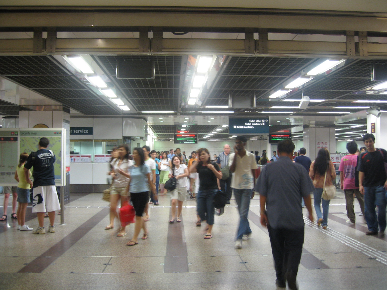 City Hall MRT Station. Taken by Terence Ong (own) in April 2006.